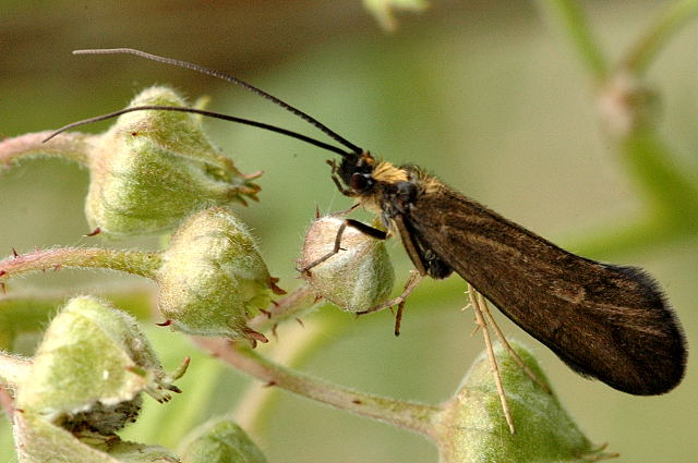 Picture taken in Commanster, Belgian High Ardennes . Species: Sericostoma personatum